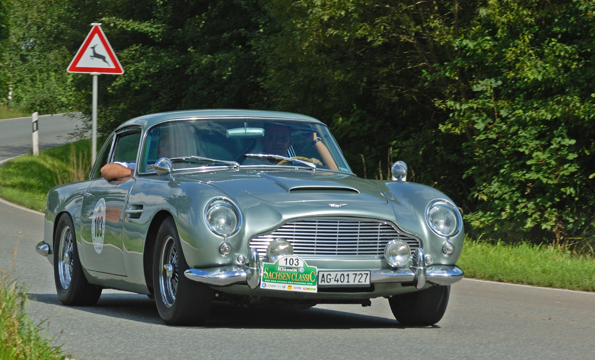 Aston Martin DB4 Vantage from 1962 during the Saxony Classic Rallye 2010